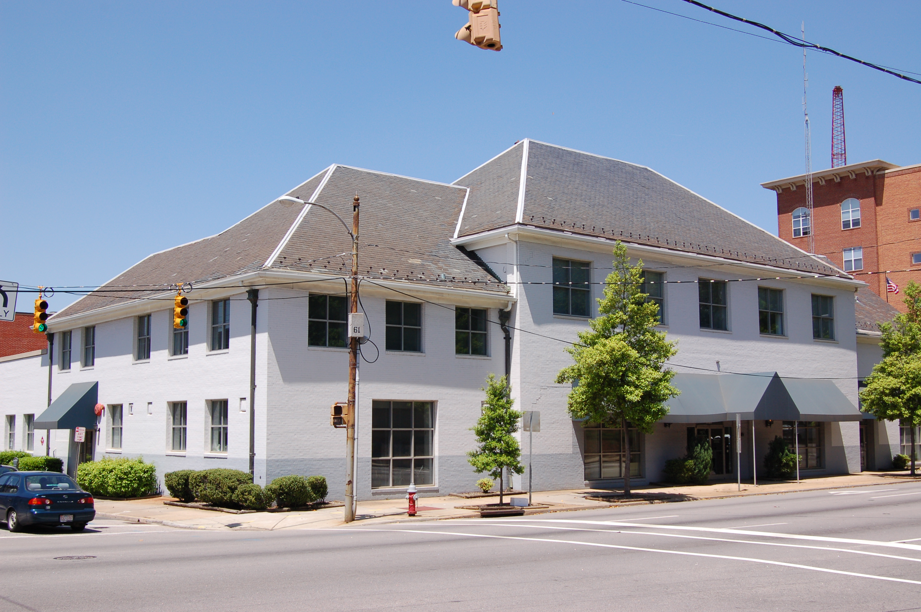 The old Union Station building in Raleigh, North Carolina as seen on 29 April 2008.